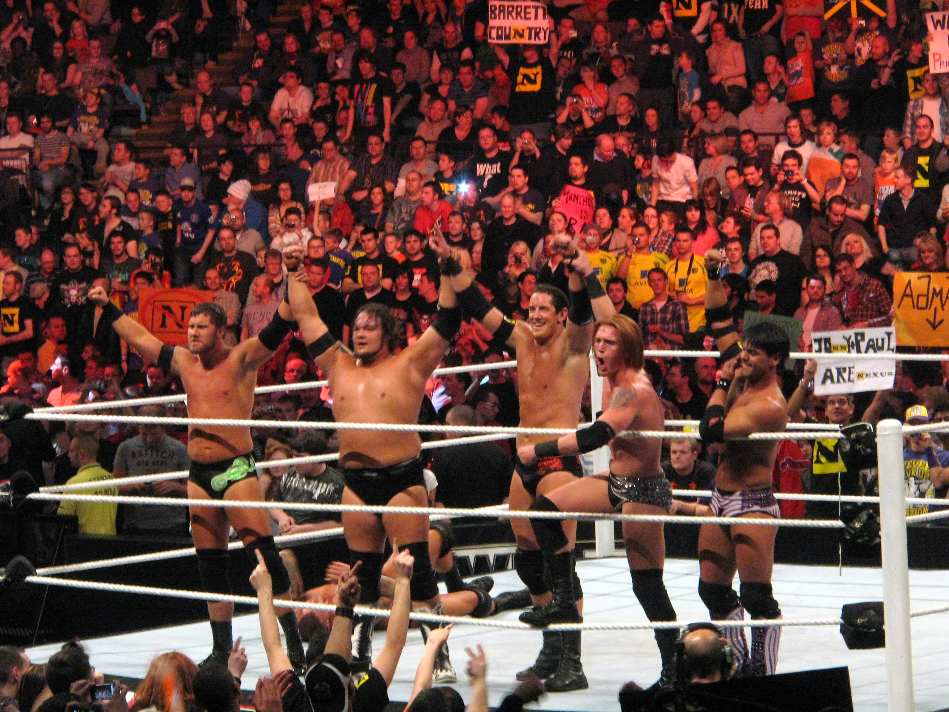 The Nexus (from left to right): Michael McGillicutty, Husky Harris, Wade Barrett, Heath Slater, and Justin Gabriel.